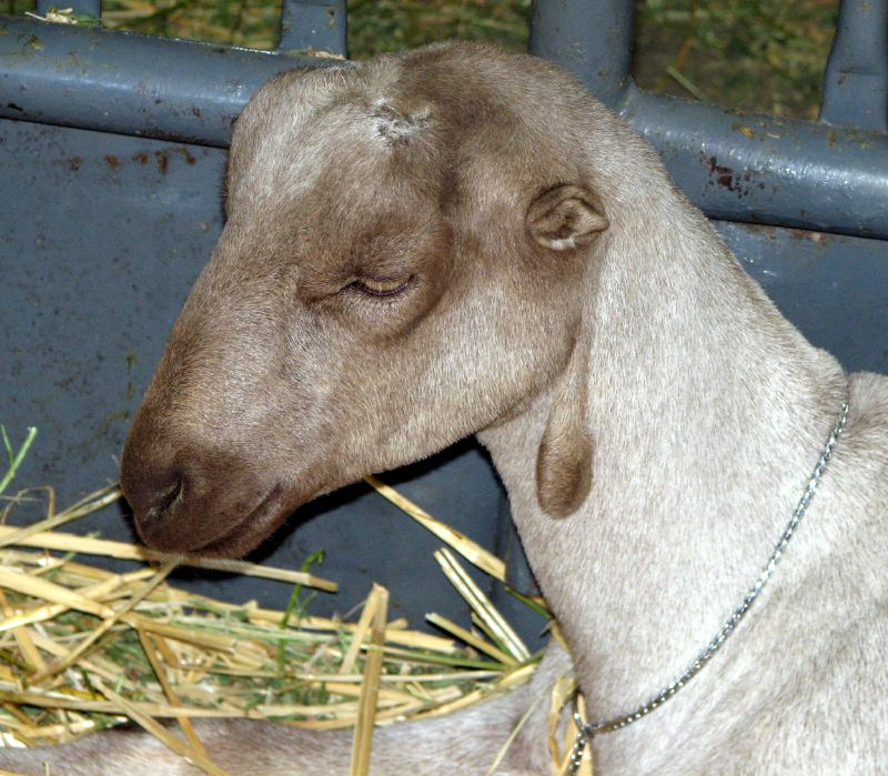 Closeup of a naturally earless LaMancha breed goat, which is most often used for milking.